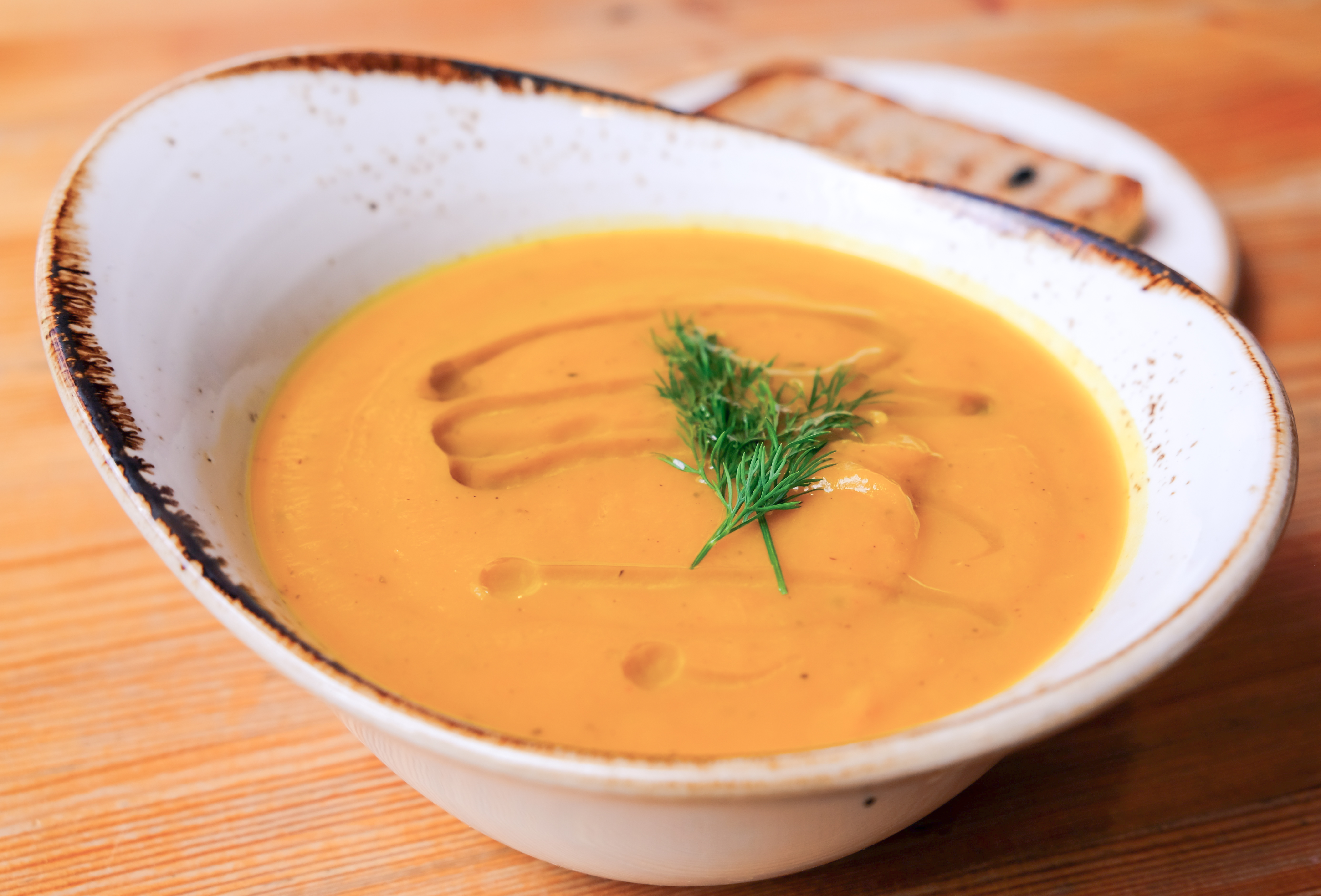 Tomato soup, plant-based